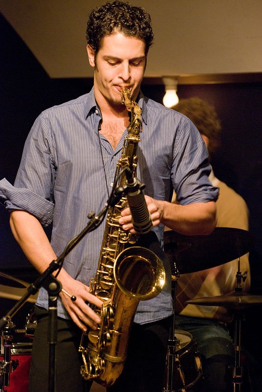 Saxophonist Cédric Gschwind at the Birds Eye Jazz Club Basel Photo Fabian Matz